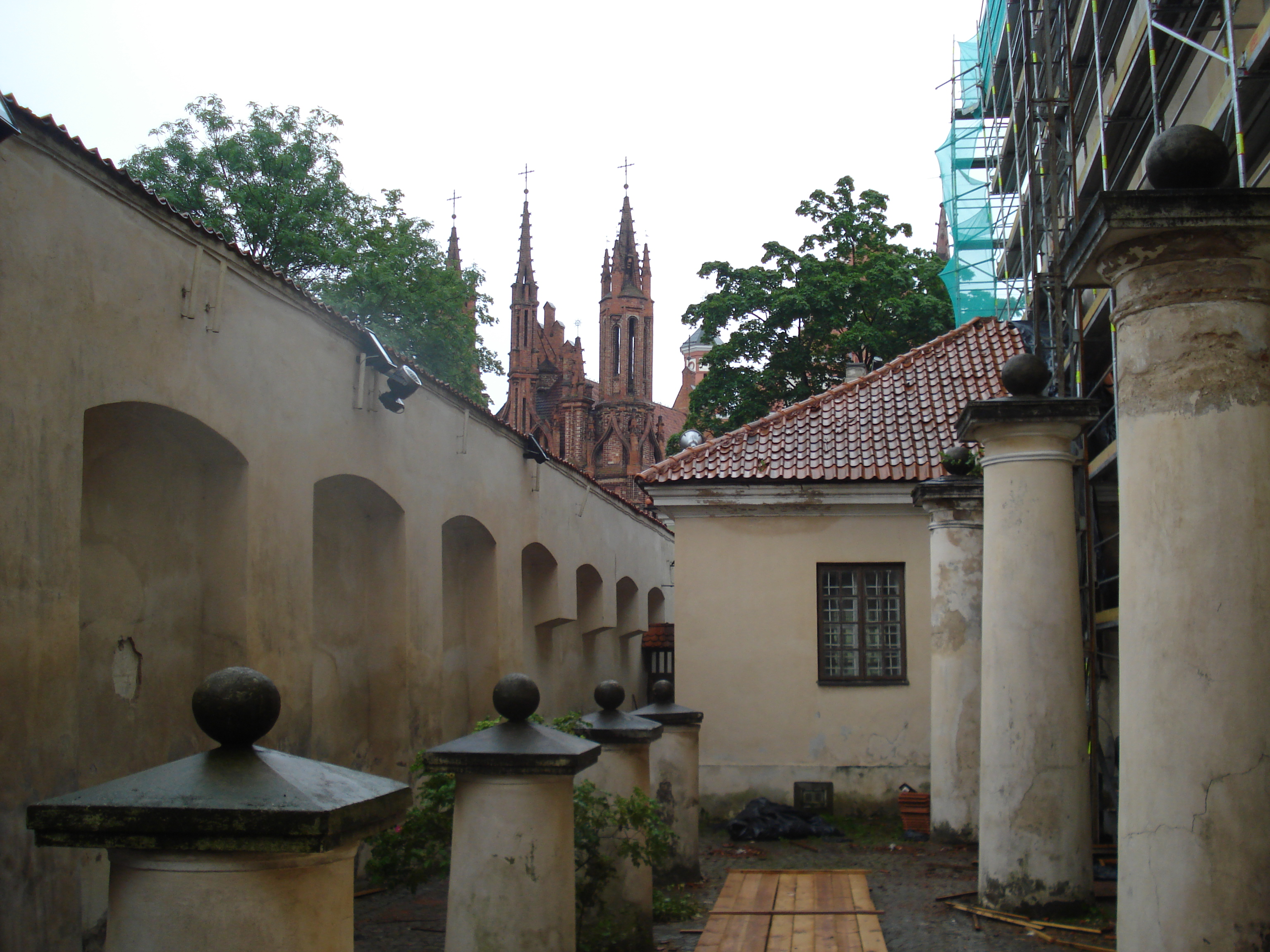 Church of St. Michael in Vilnius. Courtyard